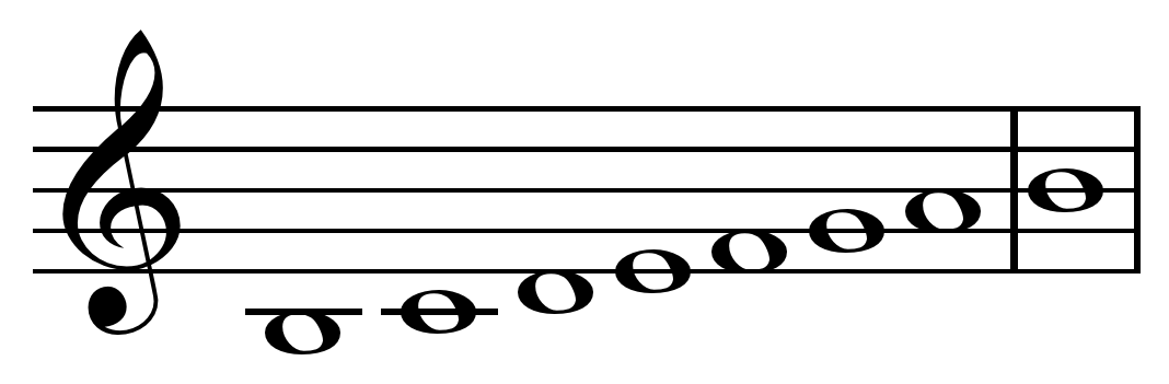 Locrian mode on B.